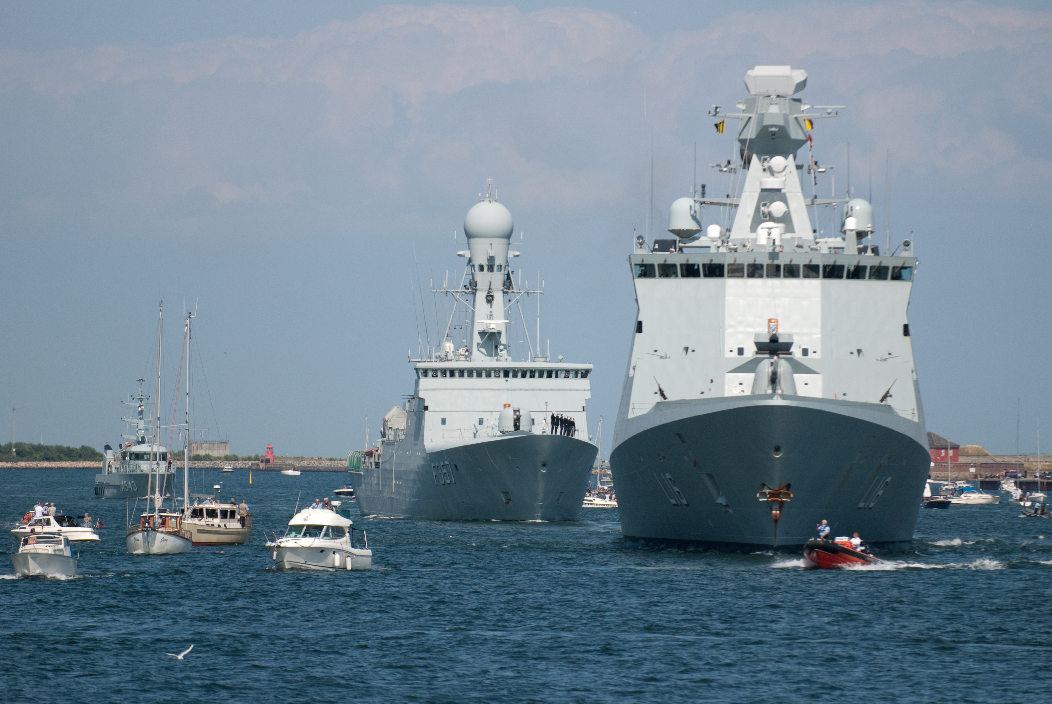 Danish Navy vessels HDMS Absalon (L16) and HDMS Thetis (F357) in the port of Copenhagen, in a fleet parade held during the Danish Navy 500 year anniversary.